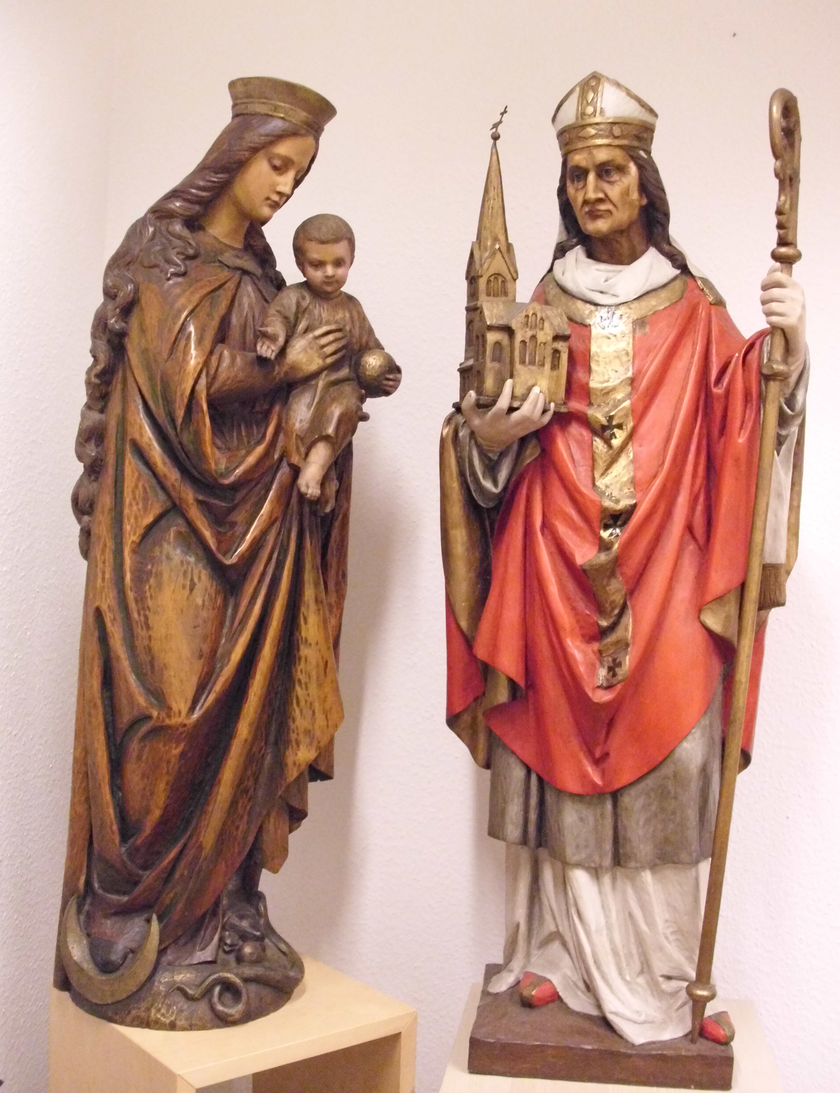 Statue of Saint Ansgar and the Madonna by the German Artist Franz Bernhard Schiller (1815-1857) for the Catholic church "St. Ansgar", known as "Kleiner Michel" in Hamburg/Germany